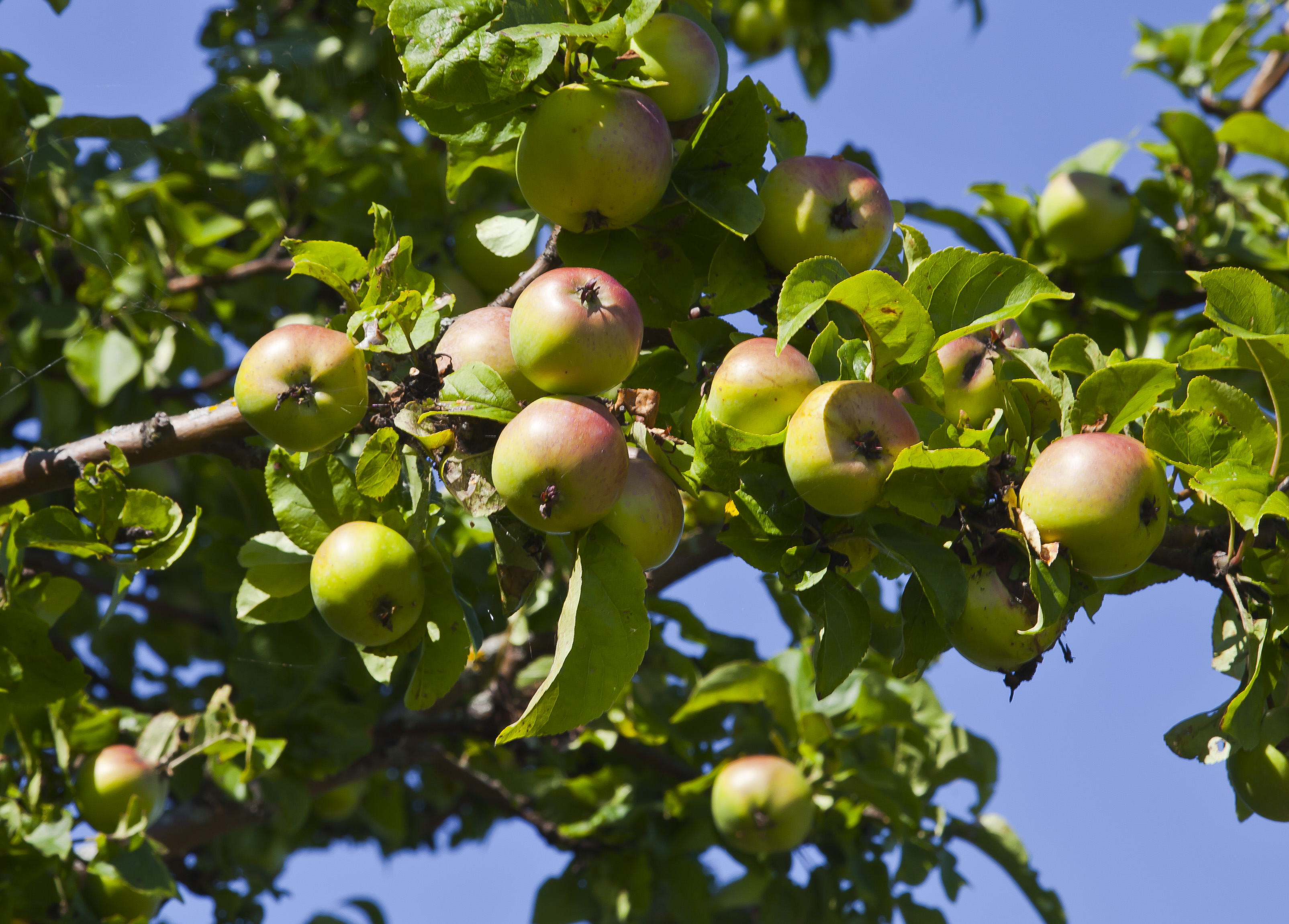 Tellisaare apples, Lahemaa National Park, Estonia